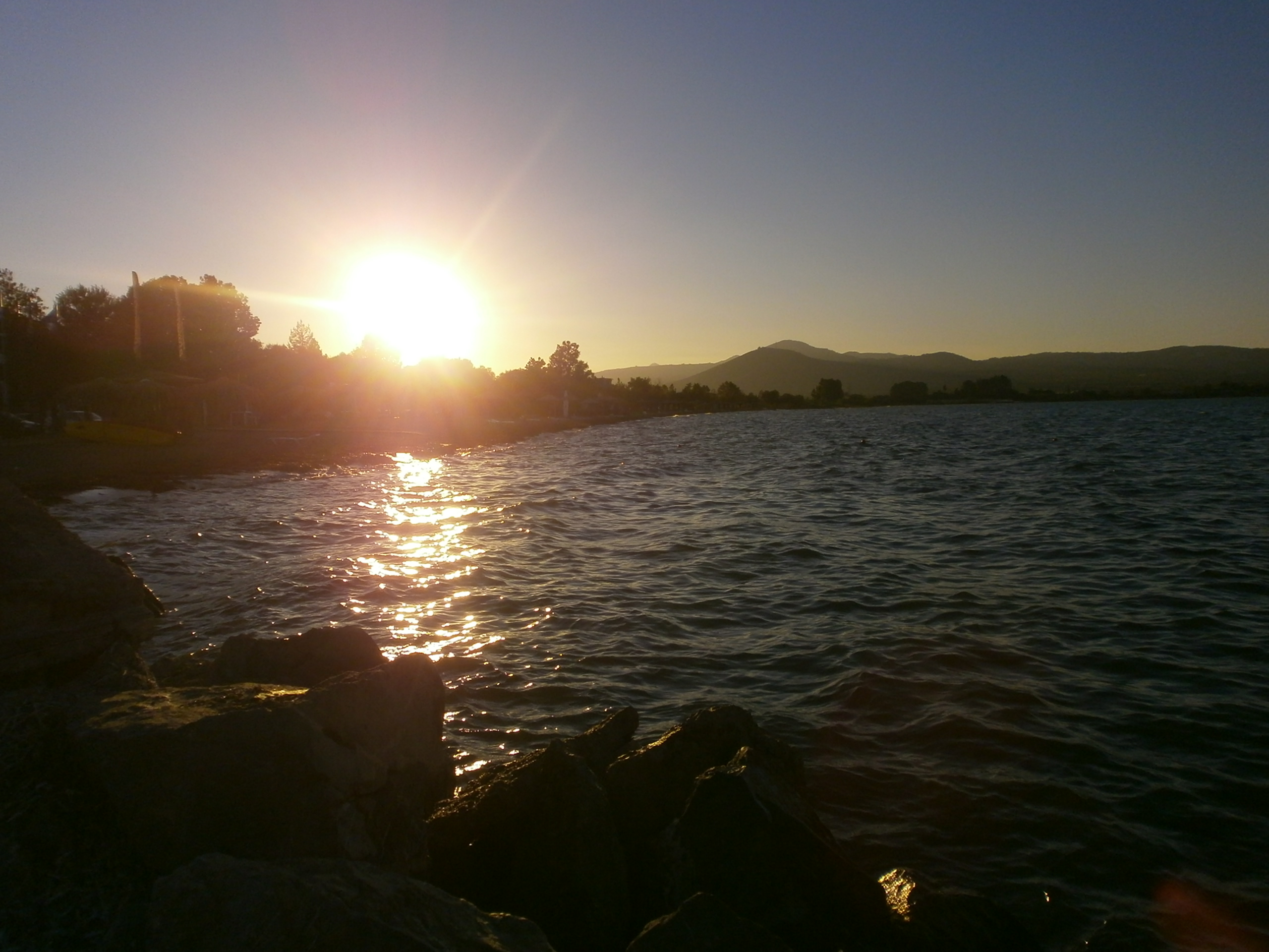 Autumn Sunset in Skala Ftiotis, Greece